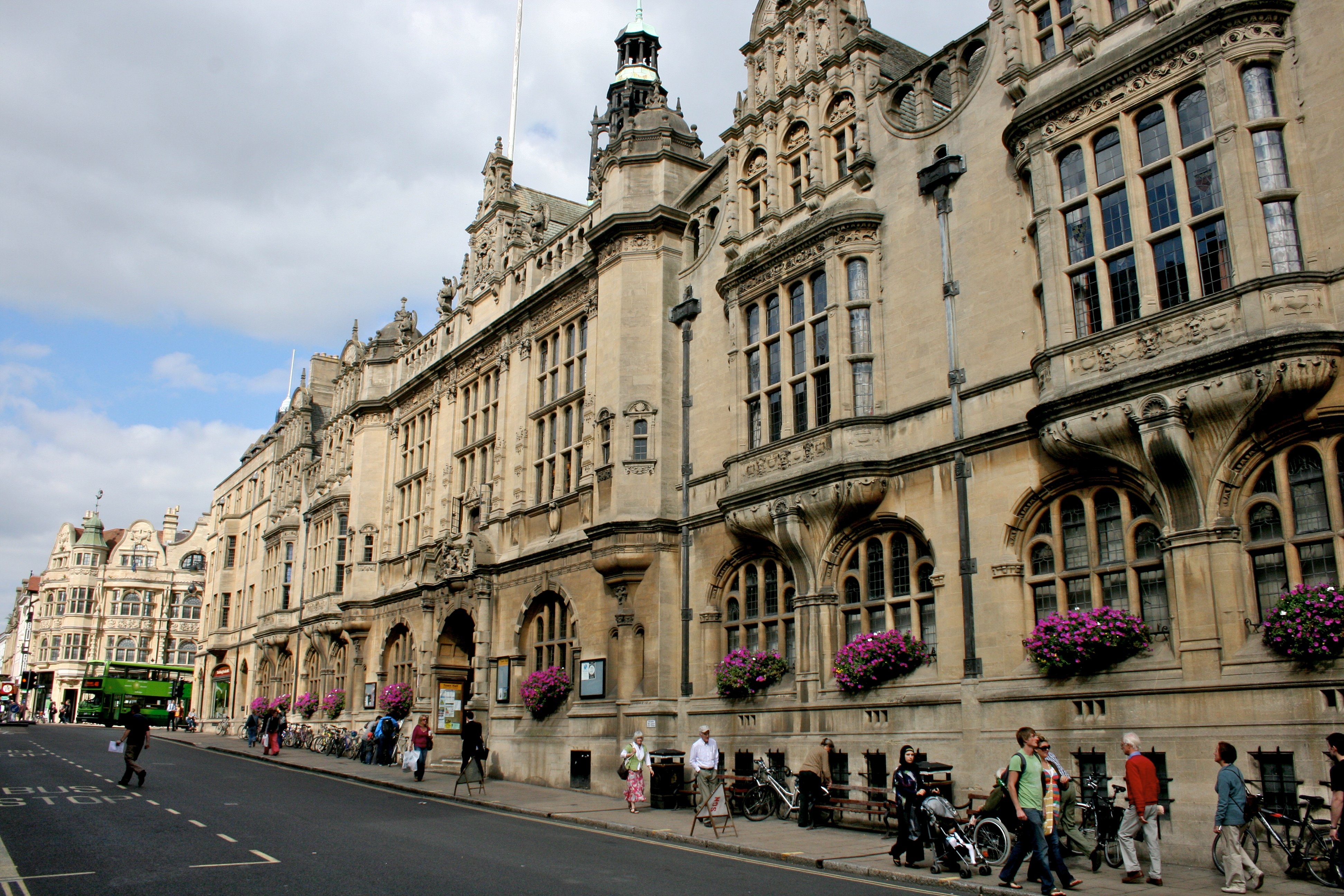 Oxford Town Hall. Oxford, United Kingdom.